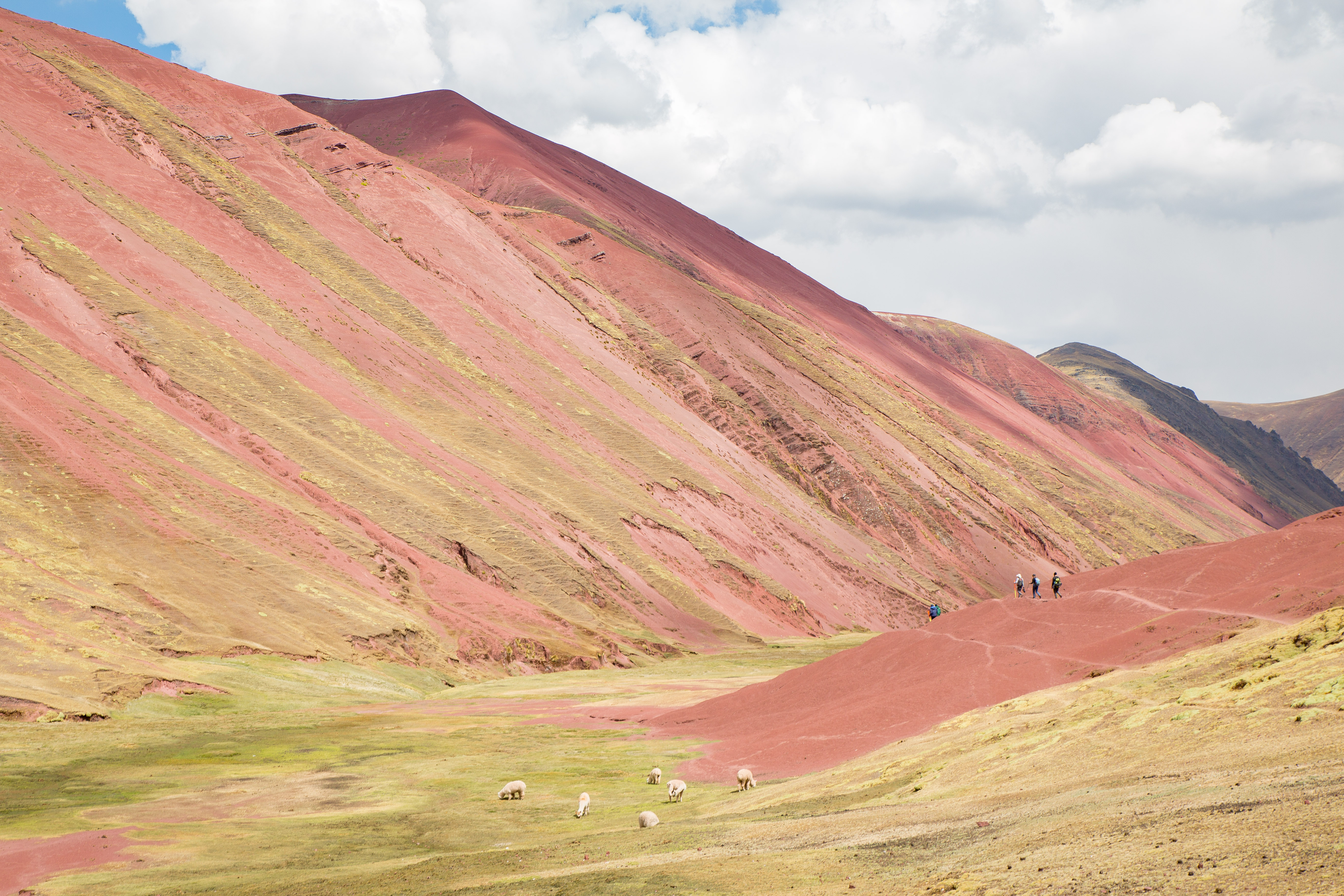 Walking down the Red Valley after visiting the Rainbow Mountain near Cusco, Peru